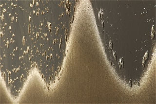 Sand, fot. Elżbieta Dzikowska